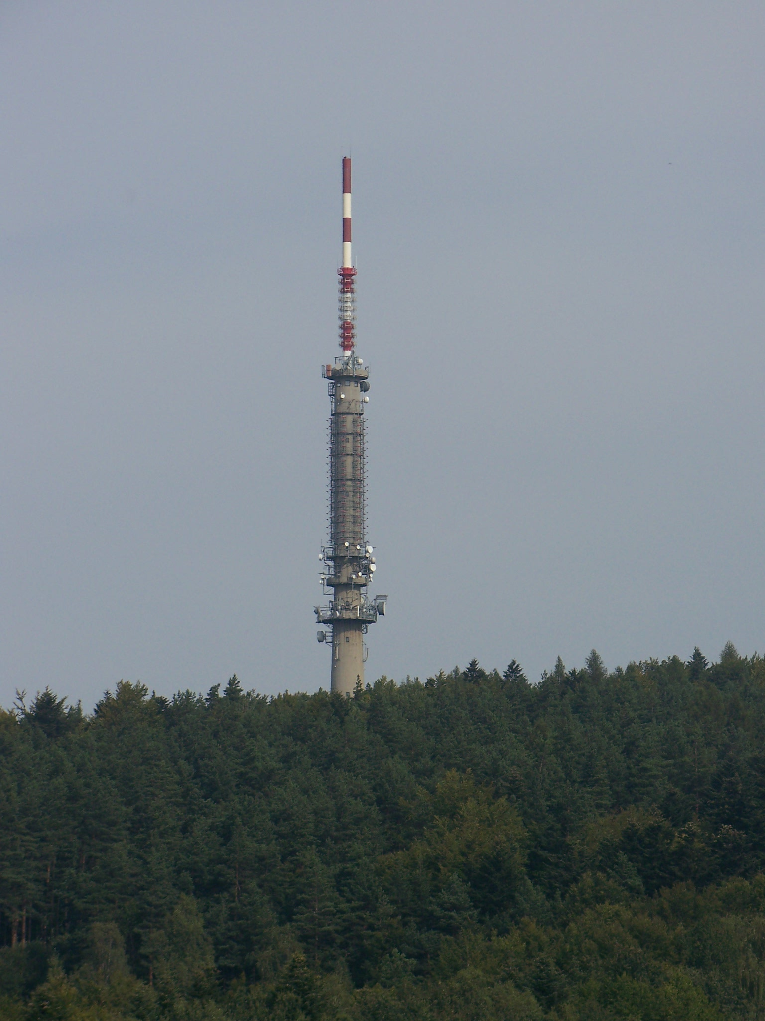 Radio and television tower on Sucha Góra near Krosno, Poland